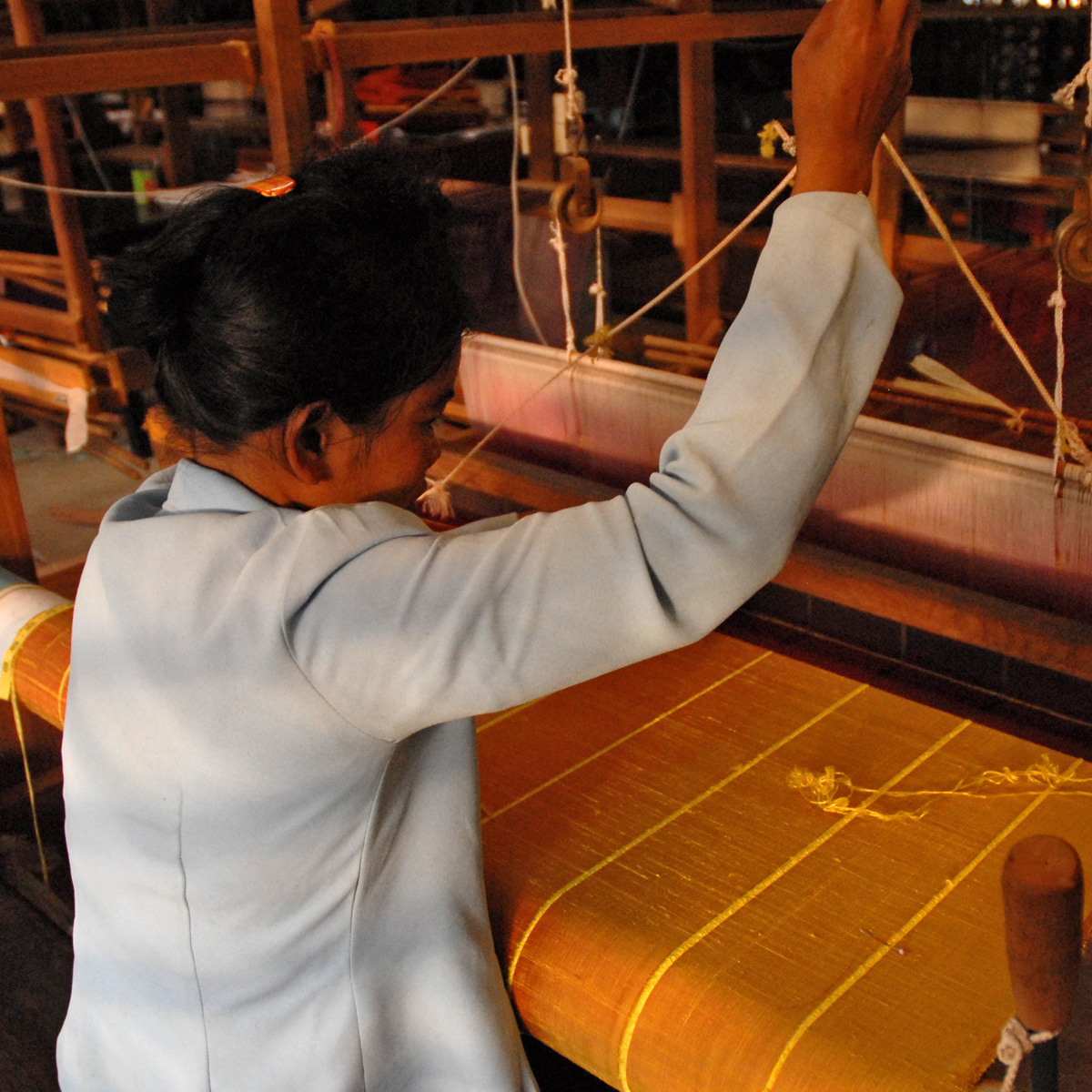 Artisans d Angkor, Silk Centre, Siem Reap